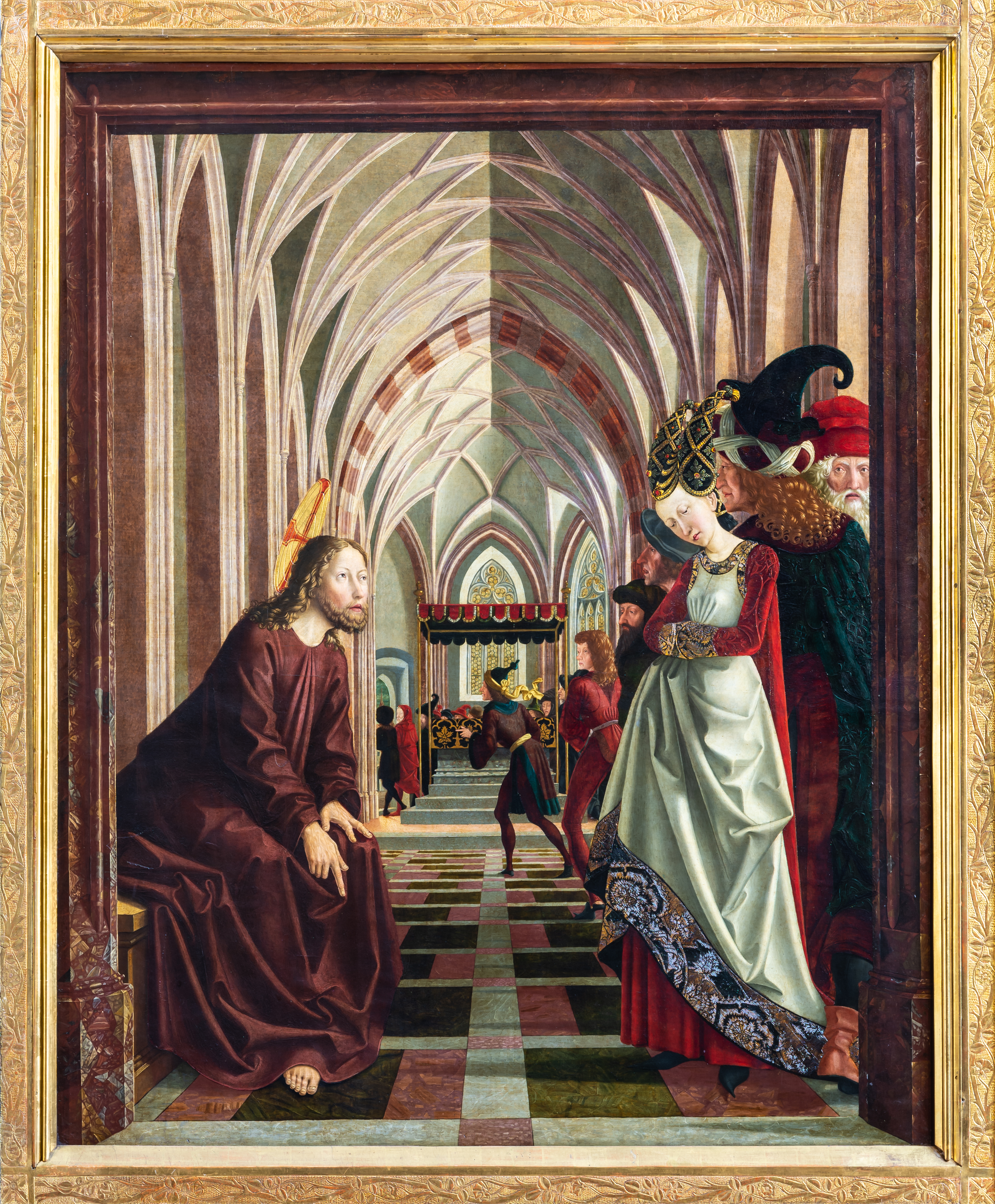 Christ and the Woman Taken in Adultery at the St. Wolfgang Altarpiece of the Catholic parish- and pilgrimage church St. Wolfgang im Salzkammergut, Upper Austria. Michael Pacher, 1471–79, set up in 1481.